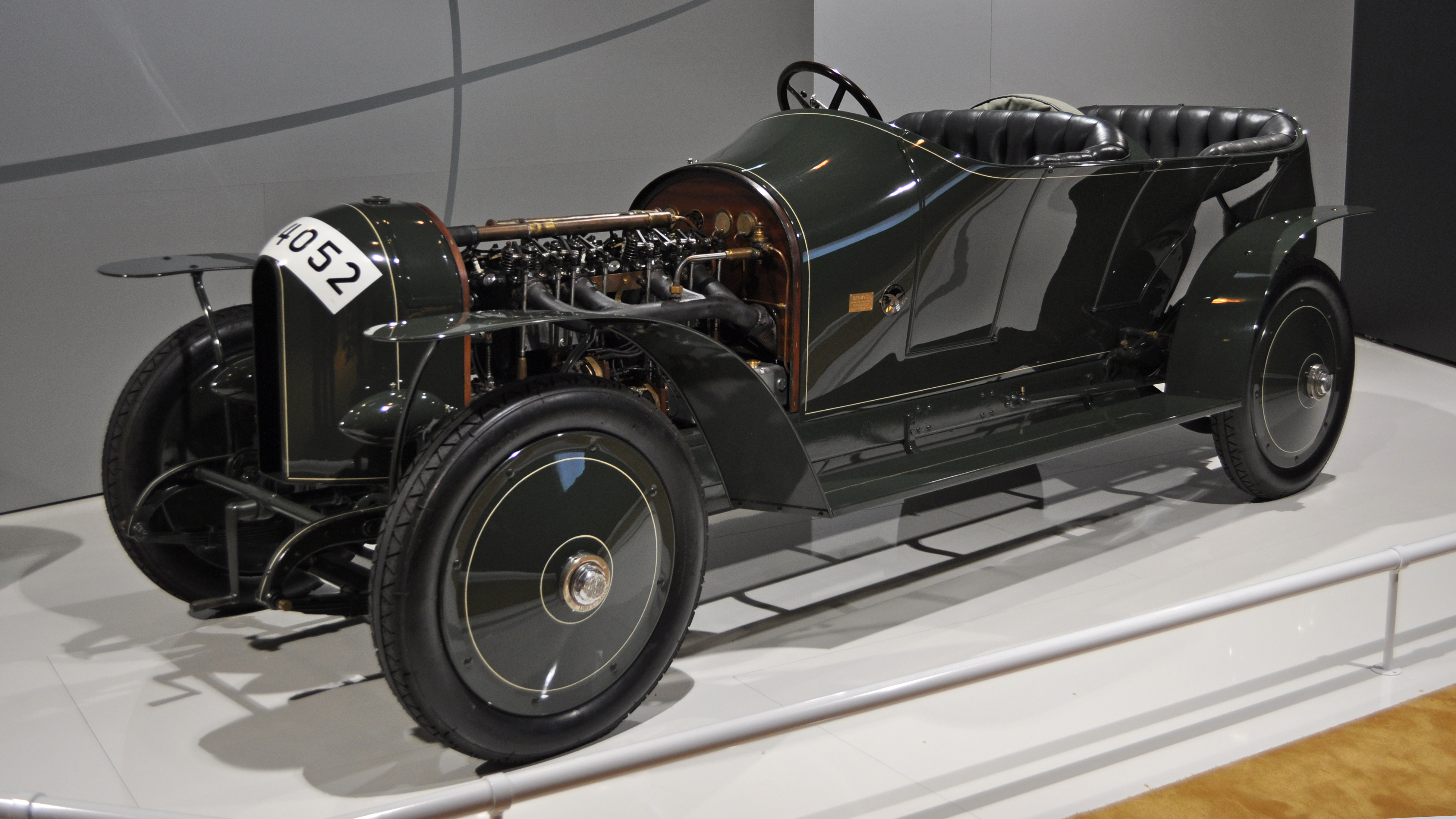 Benz Prinz-Heinrich-Wagen at the Techno-Classica 2013 in Essen